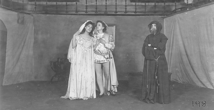 Pleasaunce Baker (Juliet), Mary Nearing (Romeo), Shirley Putnam (Friar Lawrence) in Shakespeare's Romeo and Juliet